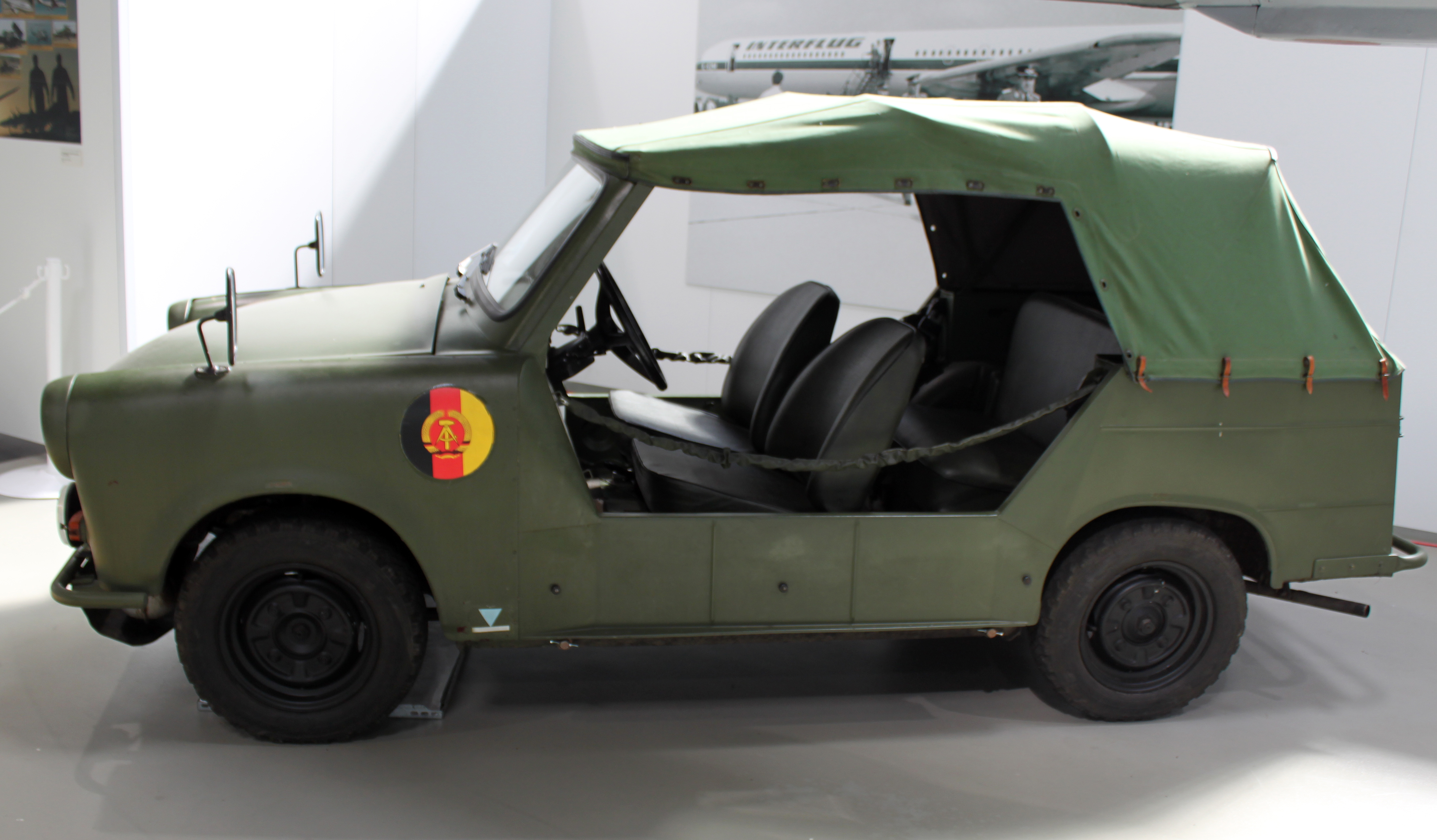 Small jeep P 601 A (constructed by VEB Sachsenring Zwickau) in the Air Force Museum Berlin-Gatow